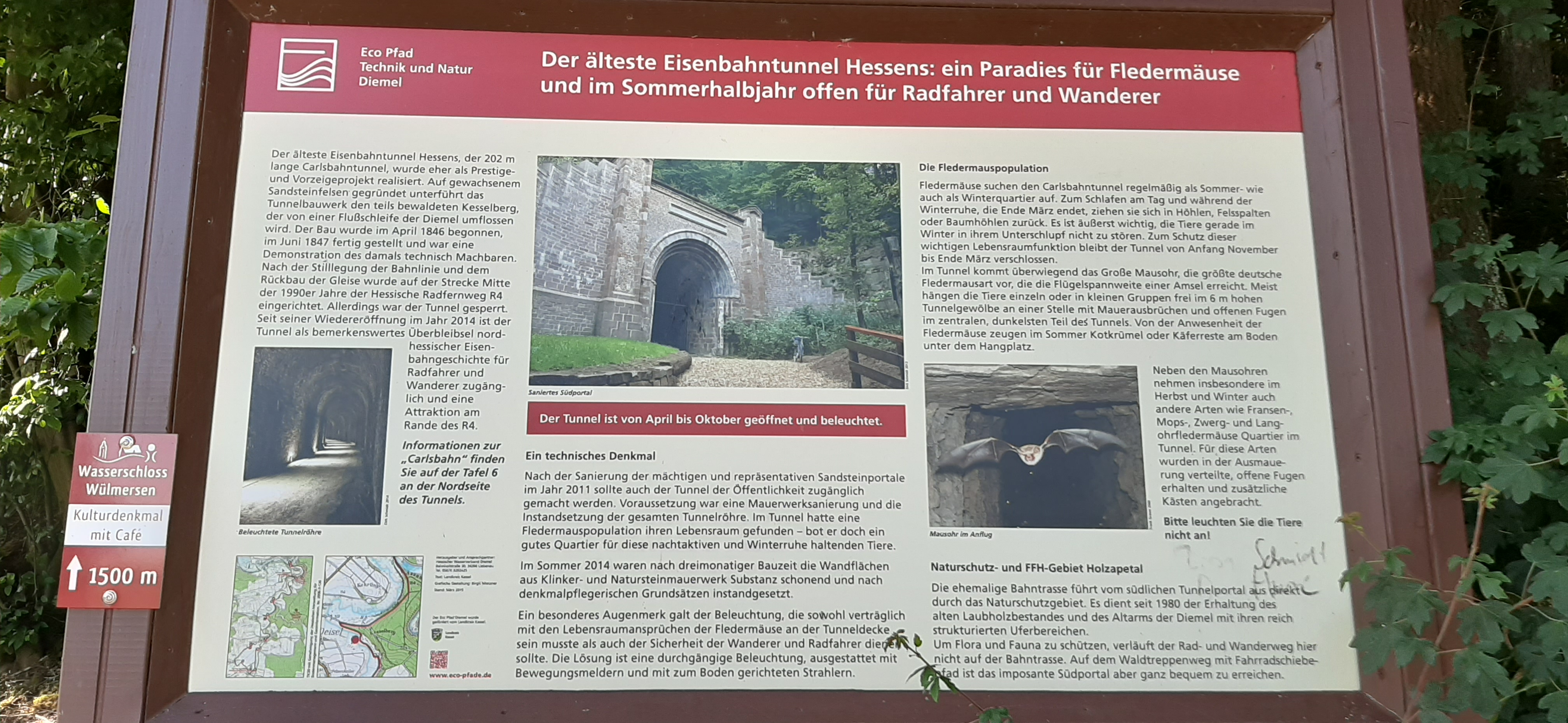 Information Board at the Deiseler Tunnel, district of Kassel, Hesse, Germany